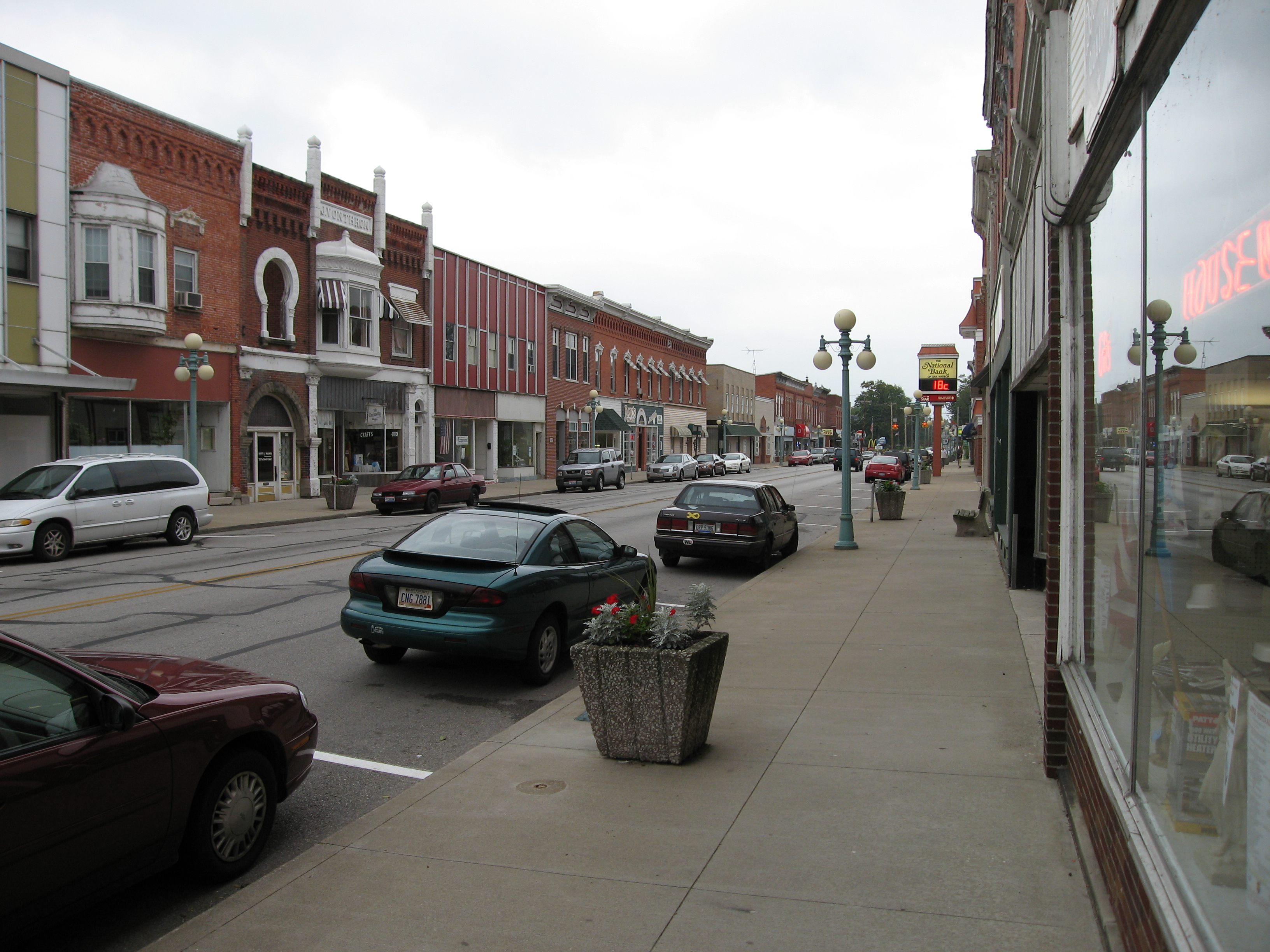 Photograph of the village of Oak Harbor, Ohioen, taken at street level from Water Street, looking East on state routes 105/ 163 toward Ohio State Route 19.